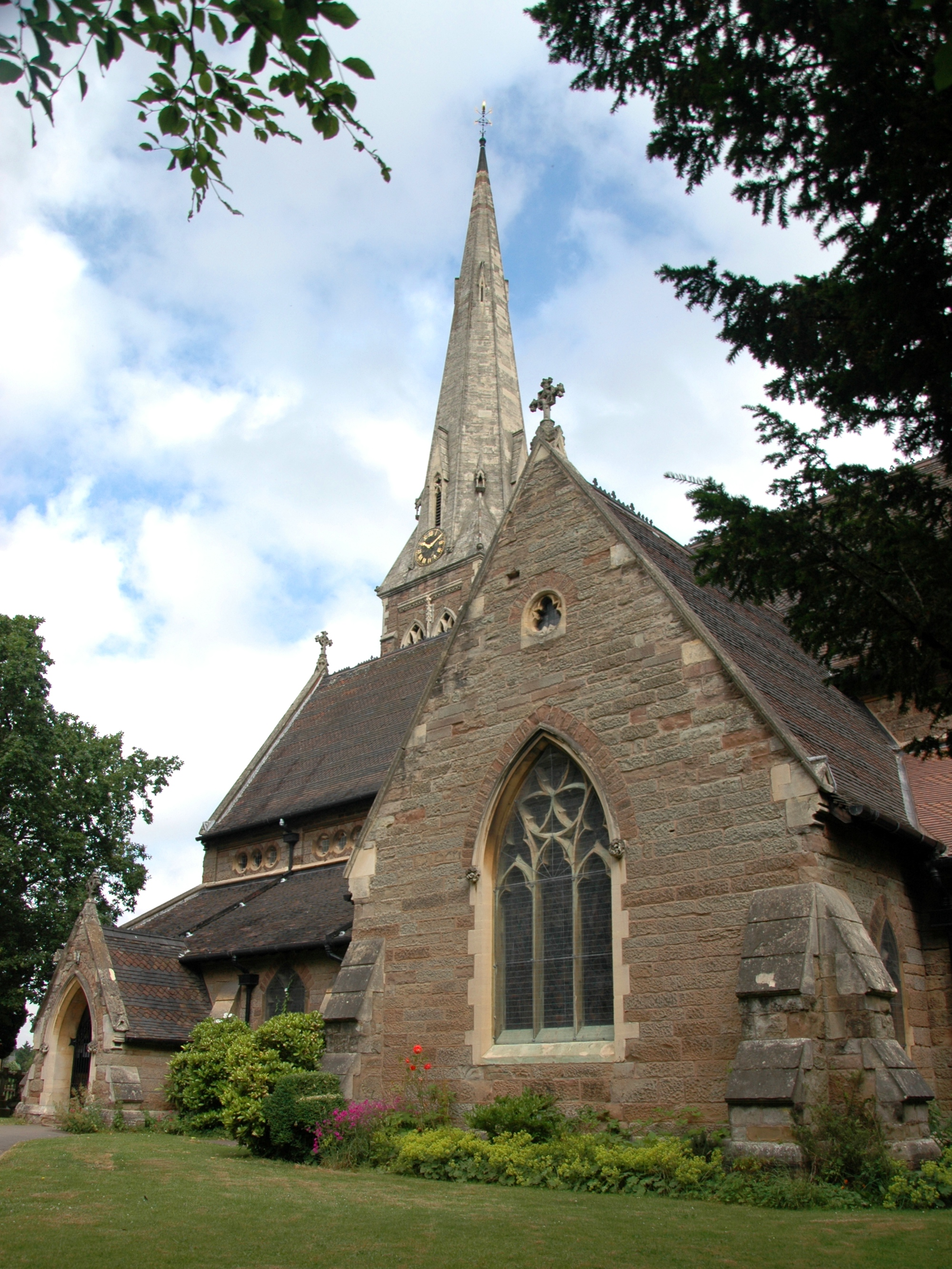 Church of England parish church of St Mary, Selly Oak, Birmingham: view from the southeast, showing the spire and the south transept